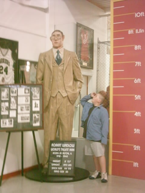 My son next to a statue of Robert Wadlow, the world's tallest man, inside Spiece Fieldhouse